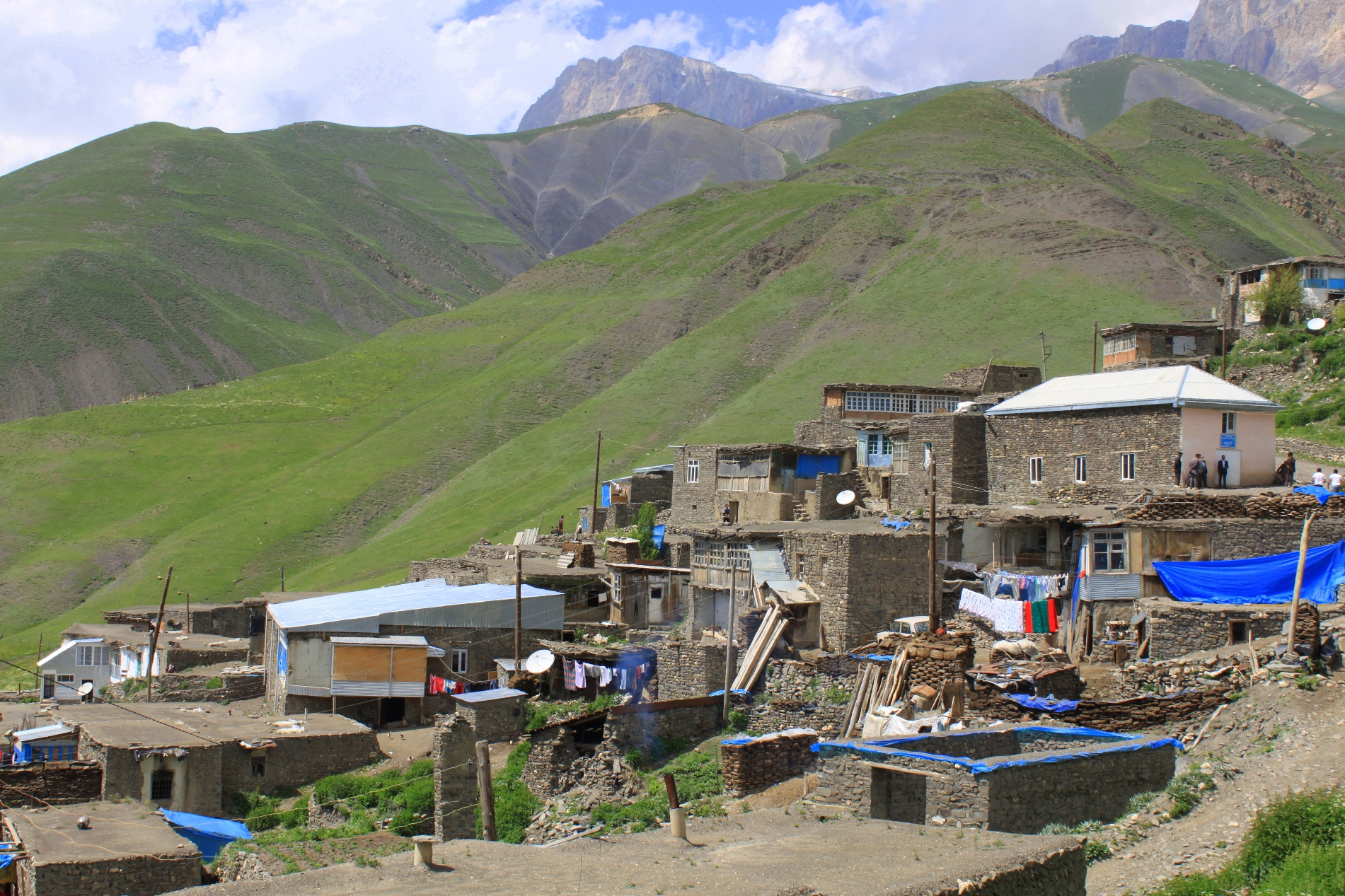 Xinaliq villige Azerbaijan